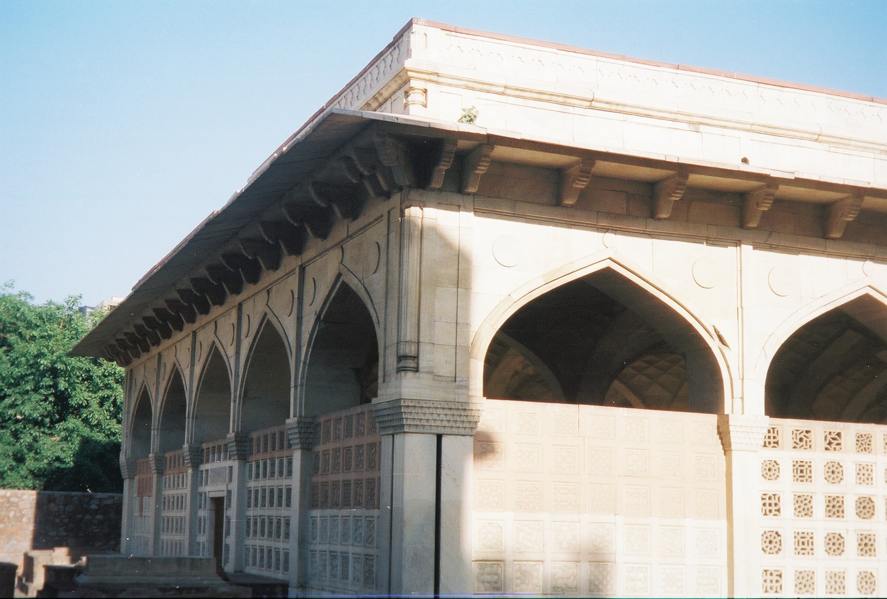 Eastern side view of Chausath Khamba Monument, New Delhi